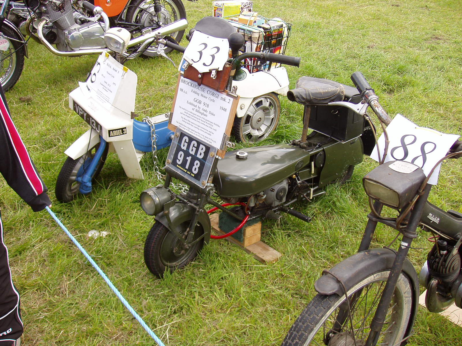 Vintage vehicle Corgi Mk2 1948